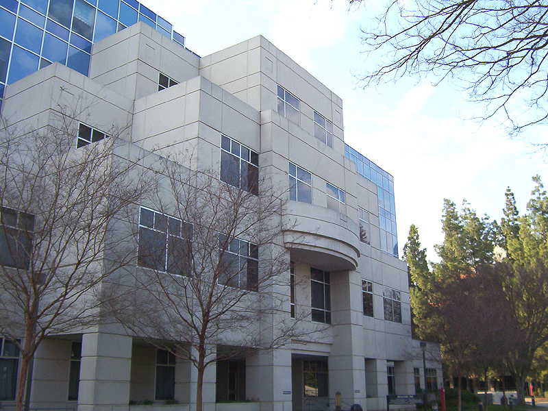 This is a photo of Riverside Hall located on the campus of California State University, Sacramento.